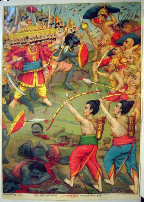 Bazaar art print, c.1910's